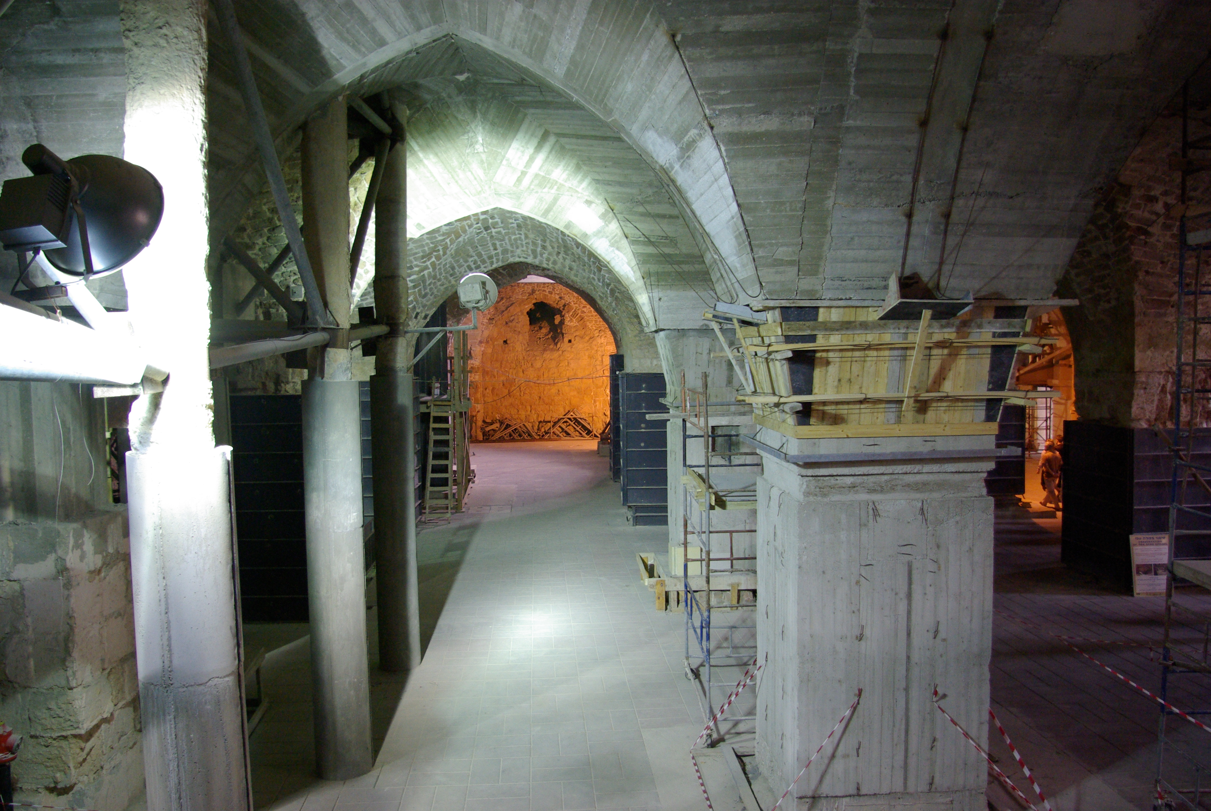 Acre, Hospitallers' citadel